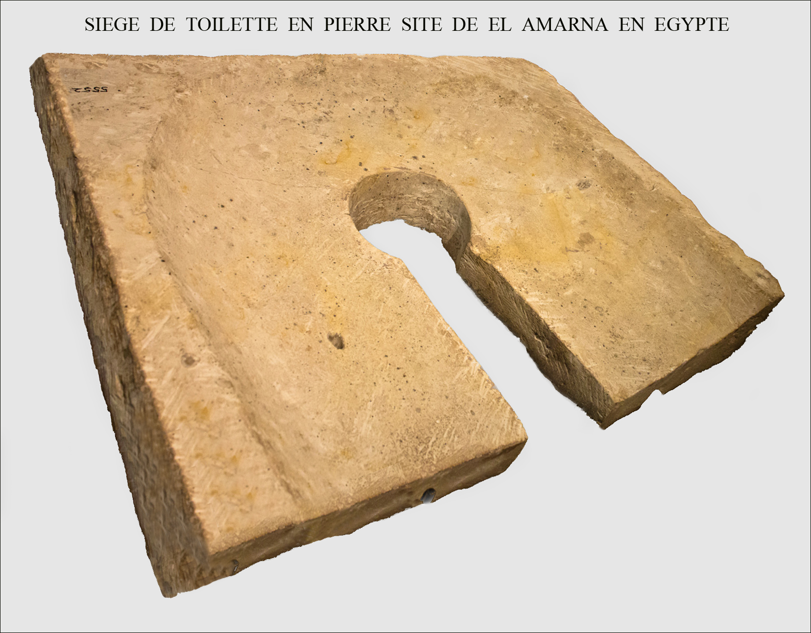 Egyptian Toilet Seat in el-Amarna 18e century B.C.